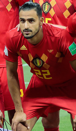 Belgian footballer Nacer Chadli on 6 July 2018, during the 2018 FIFA World Cup quarter-final match between Brazil and Belgium.